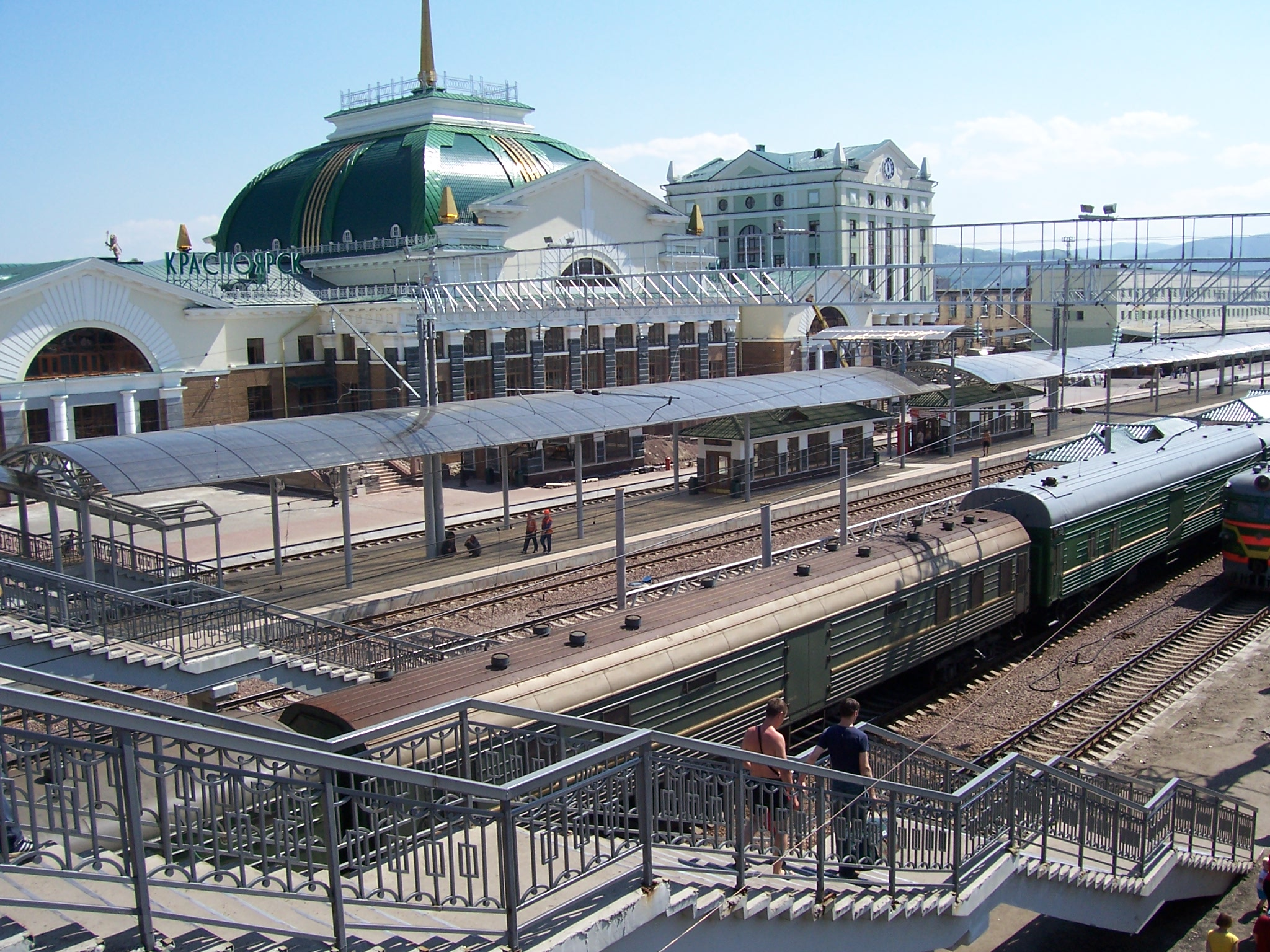 Railway station of Krasnoyarsk, Russia